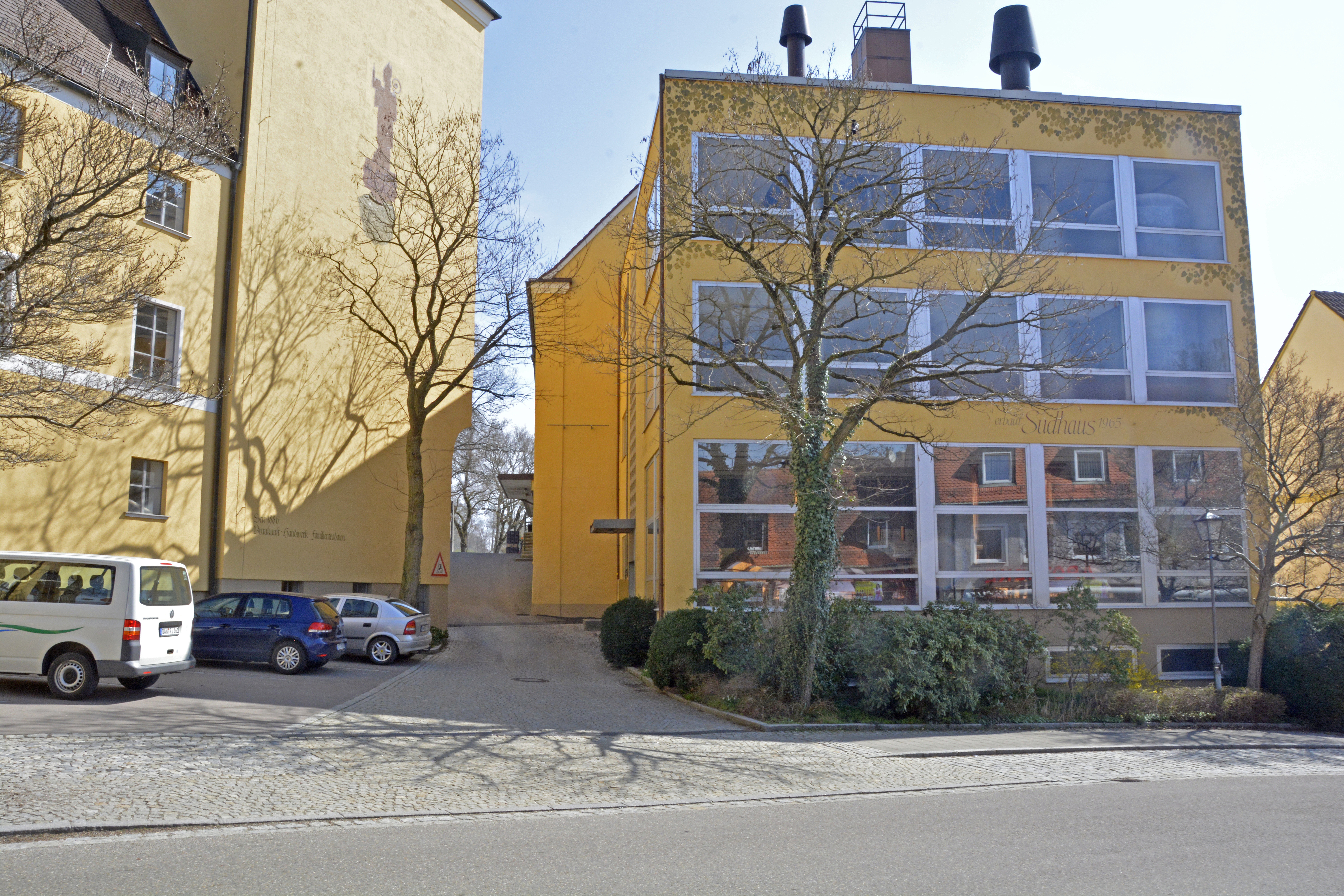 Brewhouse Maierbraeu, Altomuenster, District Dachau